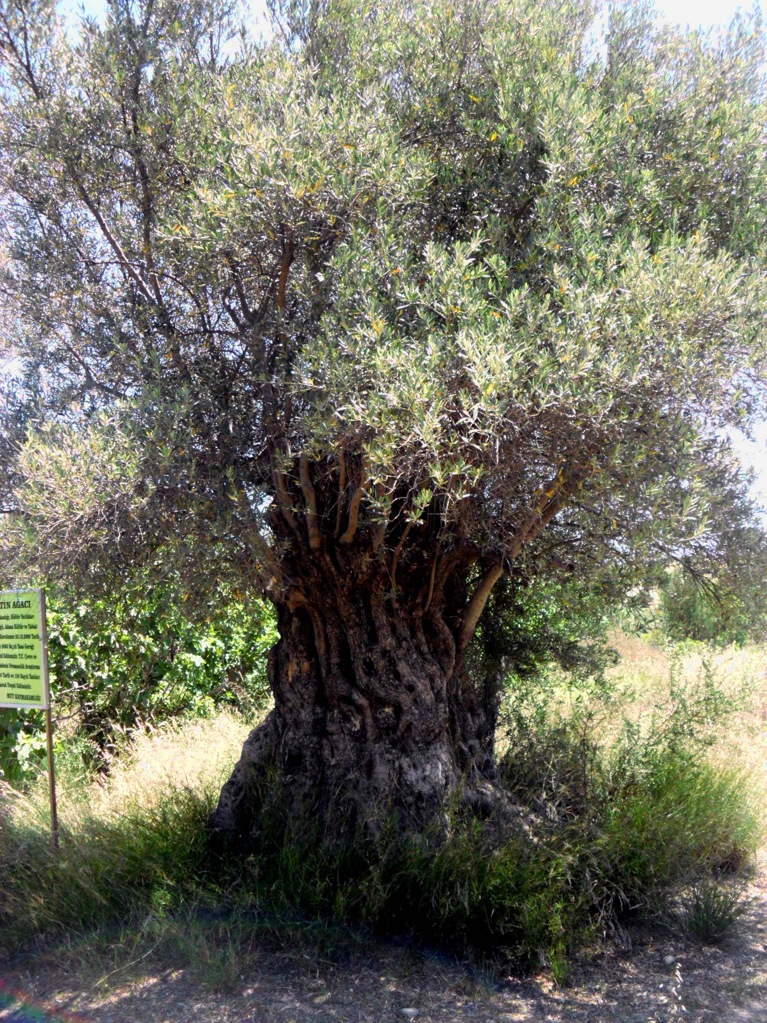 Monumental tree in Haydarköy,near Mut,Mersin Province, Turkey